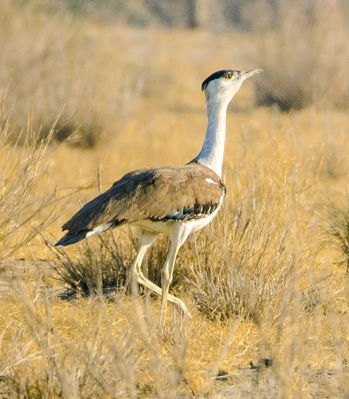 GIB, 4th Nov 2014